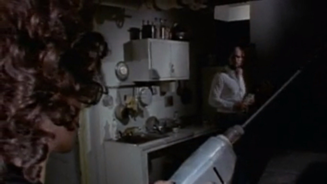 This is an over-the-shoulder screenshot from the public domain film The Driller Killer, with the protagonist preparing to dispatch another victim. You can see another moment from the film here.